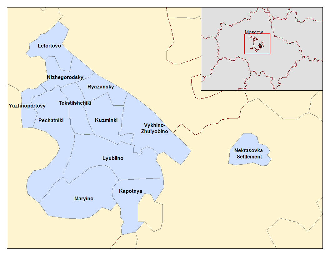 Map of the districts of the South Eastern Administrative Okrug of the Federal City of Moscow. Created by Rarelibra 20:51, 3 April 2007 (UTC) for public domain use, using MapInfo Professional v8.5 and various mapping resources.